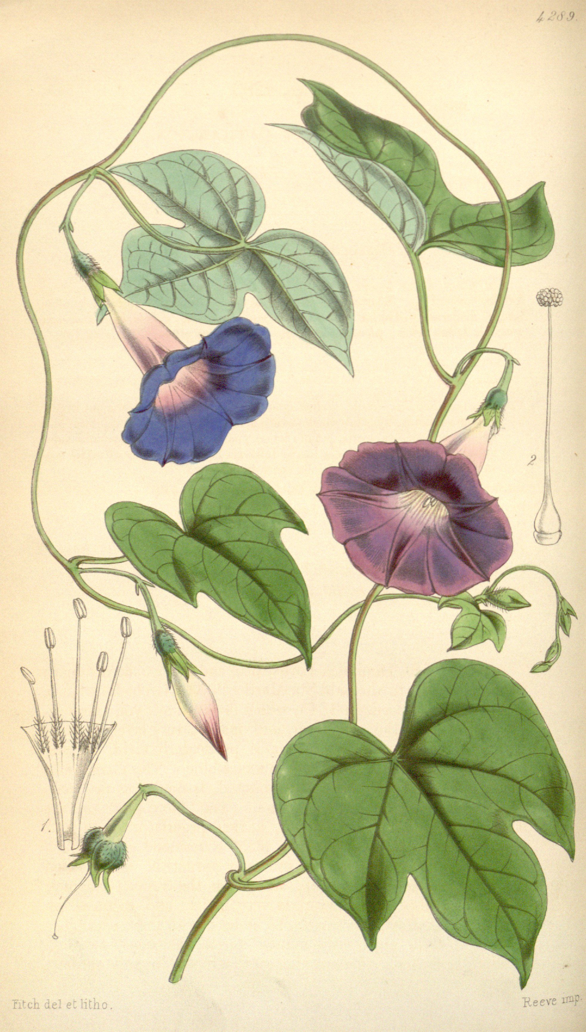 This is a plate from Curtis's Botanical Magazine, Volume 73. 4289. Pharbitis cathartica. Purging Pharbitis.